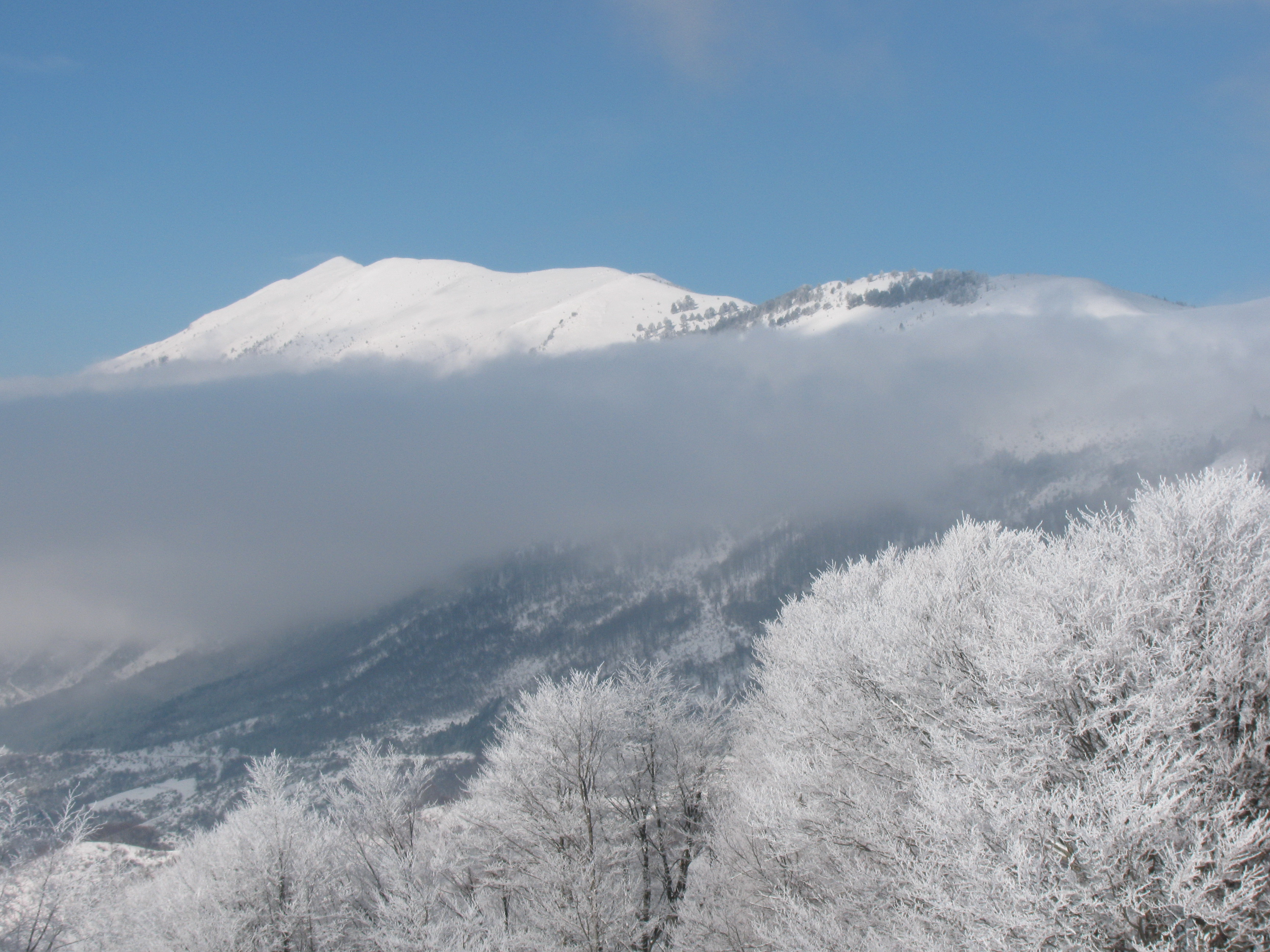 Oshlak peak 2212m